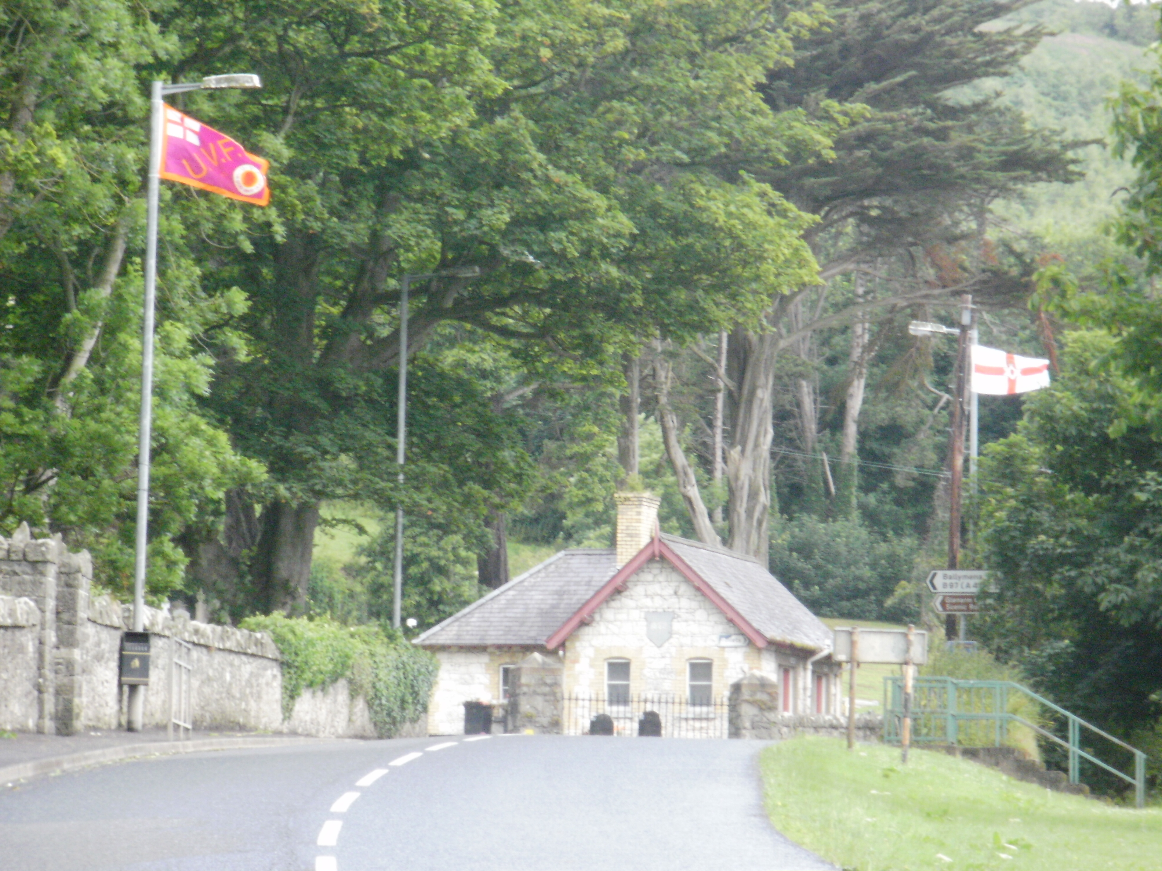 The flag of the illegal loyalist paramilitary group the UVF(Ulster Volunteer Force) in Glenarm,County Antrim,Northern Ireland.The flag is legal because it states the date 1912 on it.